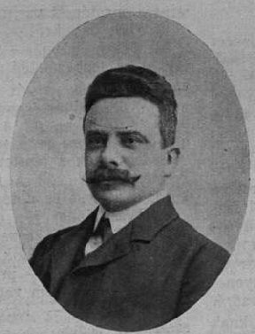 Portrait of Nándor Láng